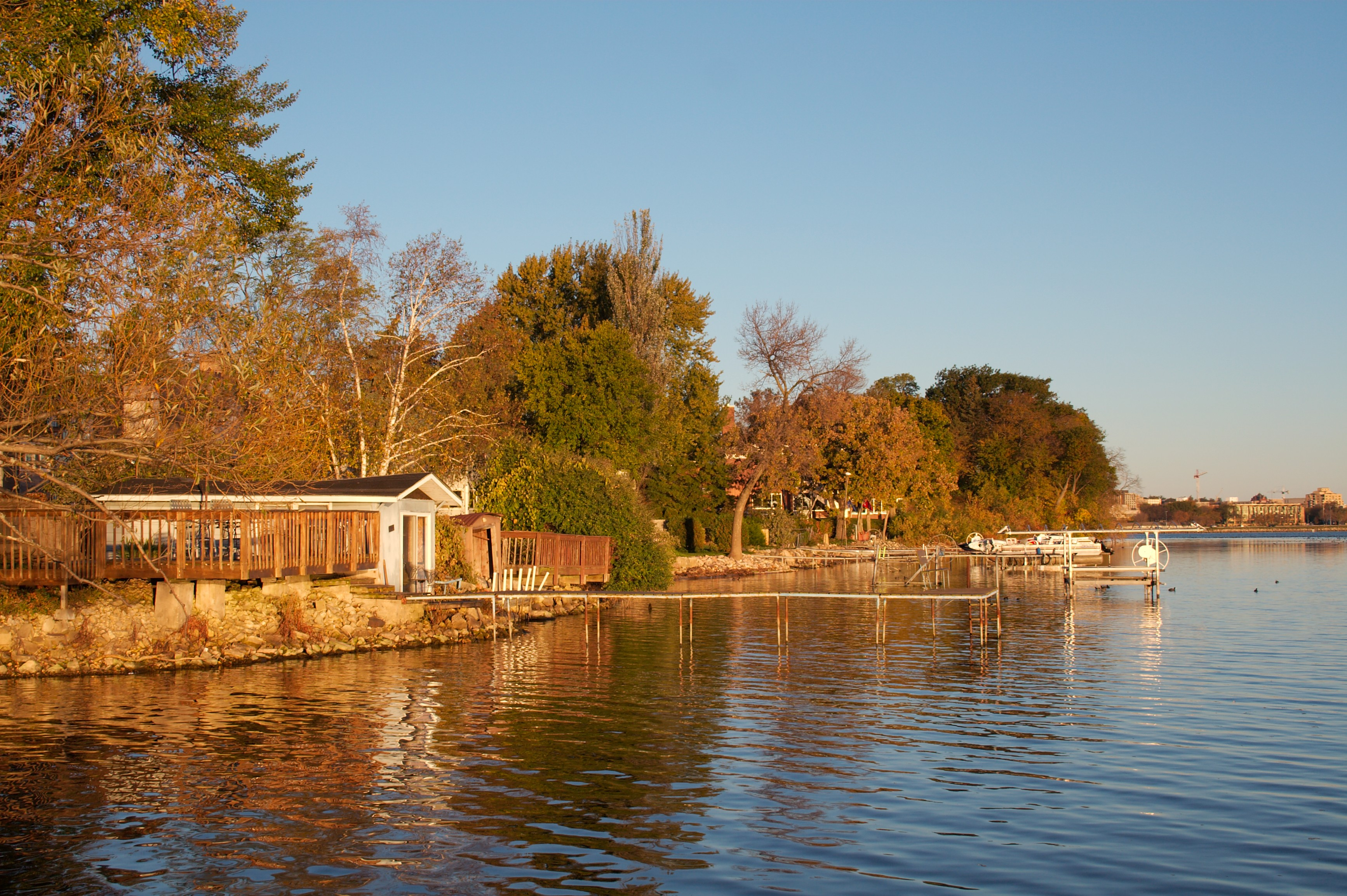 Lake Monona shore in Madison, WI